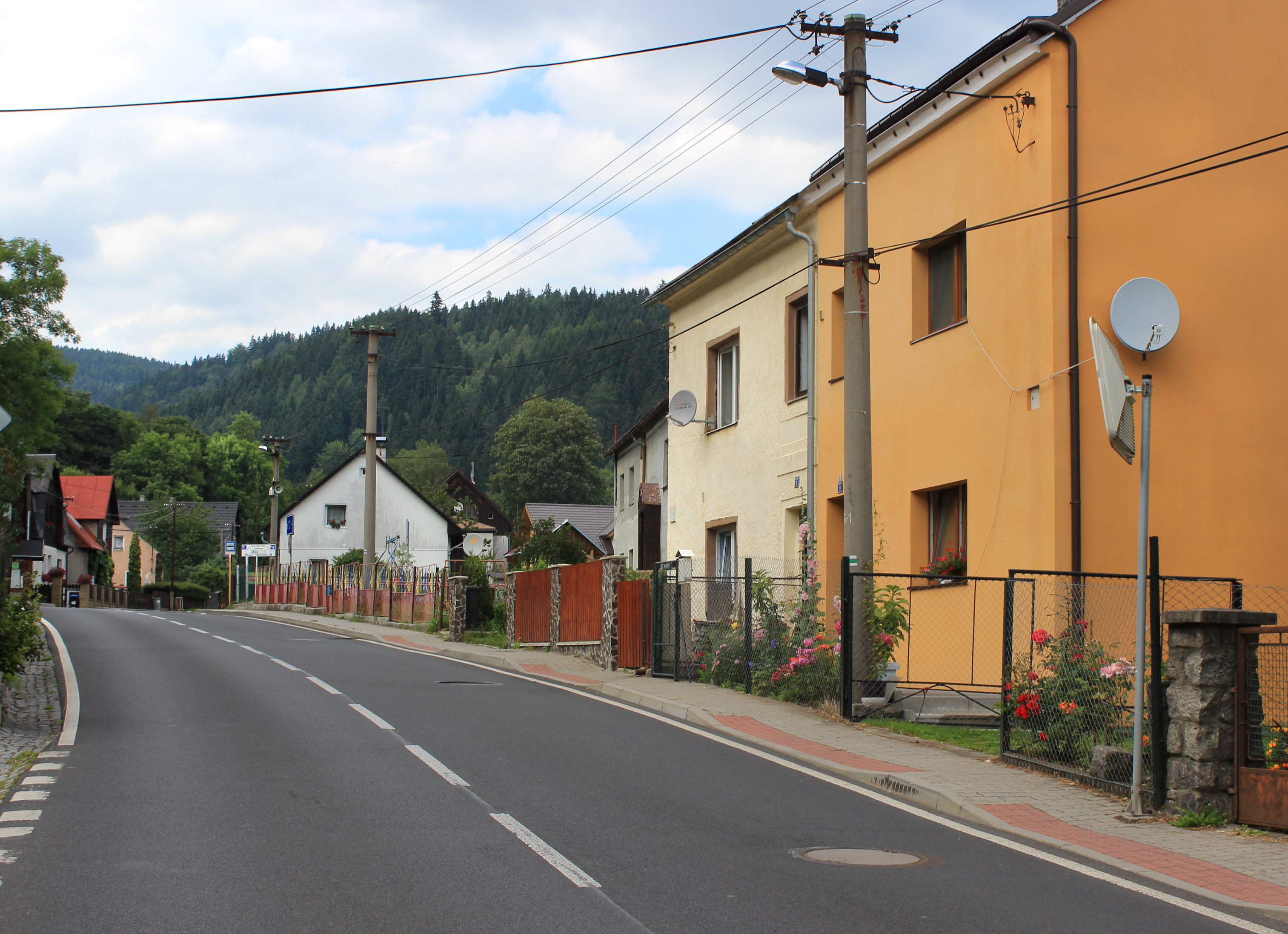 Road No. 221 in Merklín, Czech Republic.